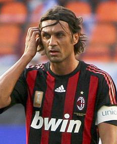 Legendary Italian footballer Paolo Maldini